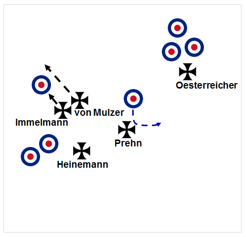 Immelmann last dogfight on 18 June 1916 Page 3